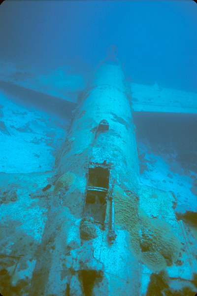 Mistsubishi G4M1 ("Betty") bomber wreck in Truk Lagoon, Micronesia.